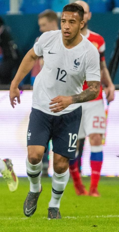 27.03.2018. Россия, Санкт-Петербург, «Санкт-Петербург». Товарищеский матч «Россия» — «Франция».